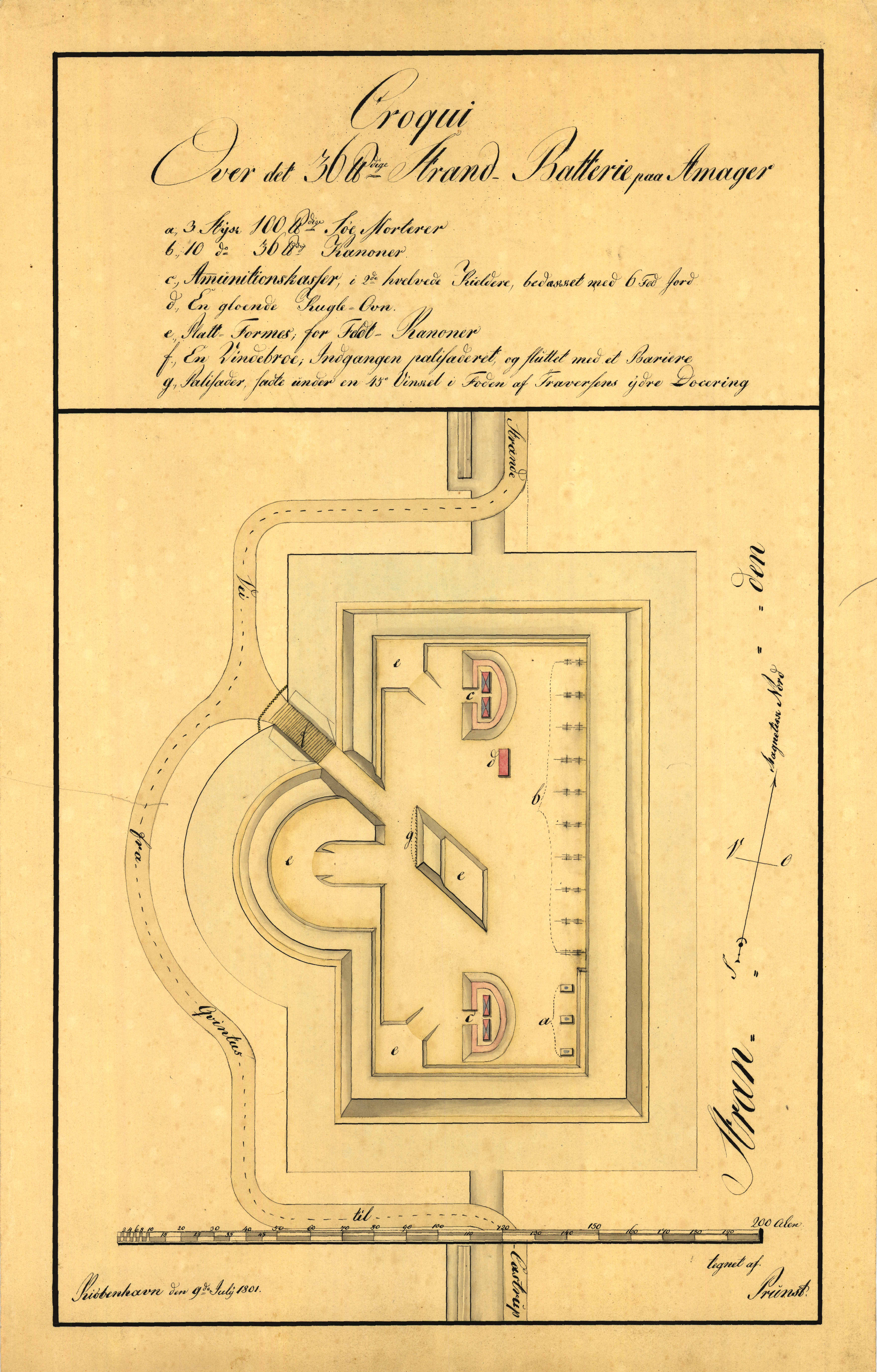 Strickers Battery at Amager, outside Copenhagen.